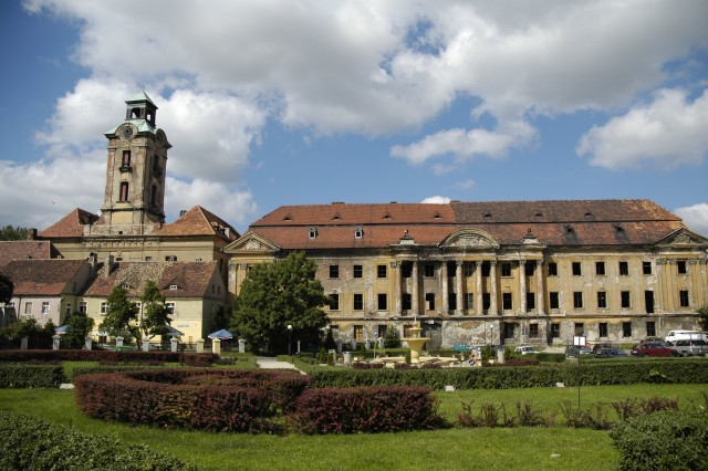 Poland, Zary - castle and palace.